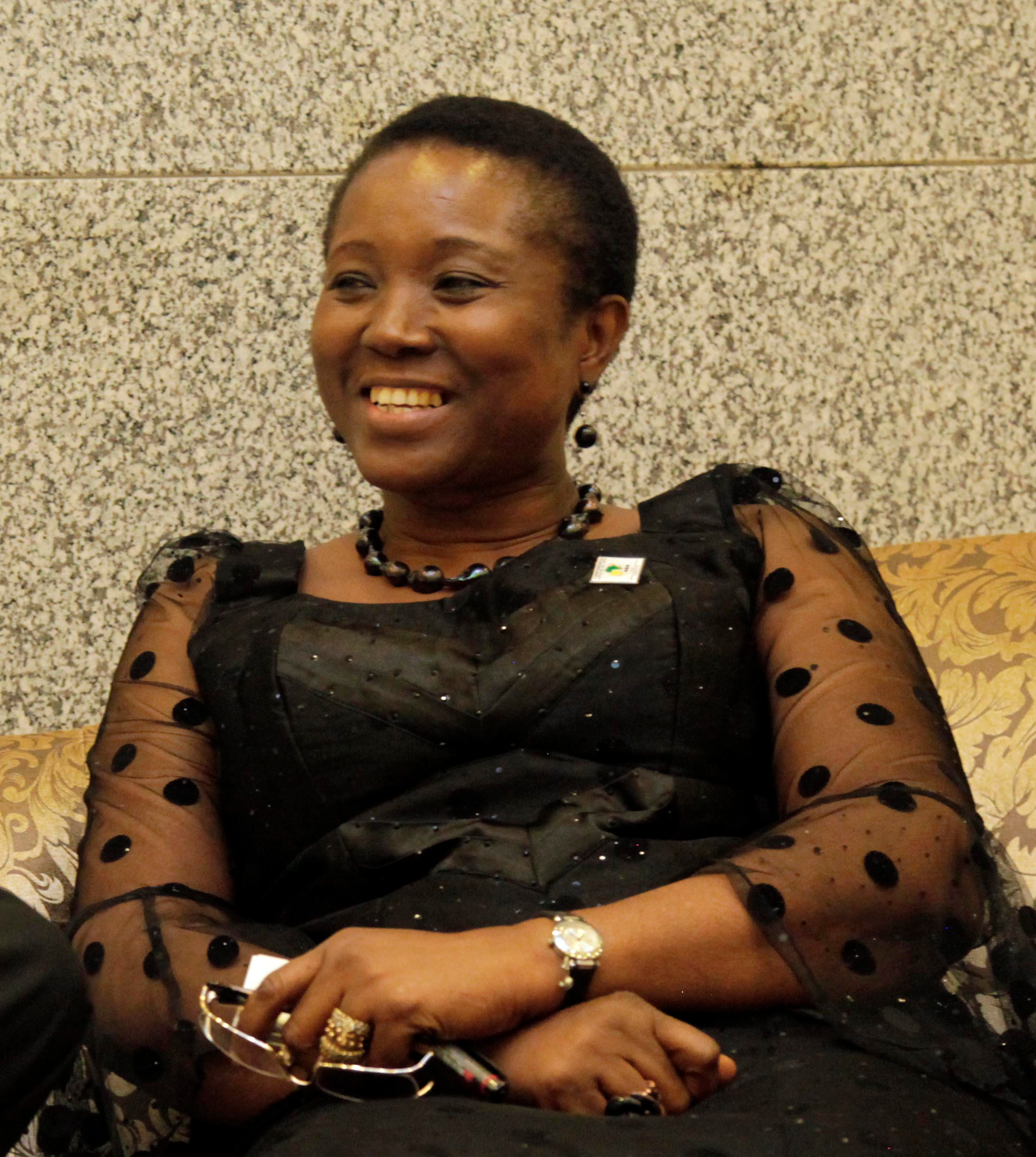 Viola Onwuliri 22 February 2013 (crop of meeting with Ricardo Patiño)